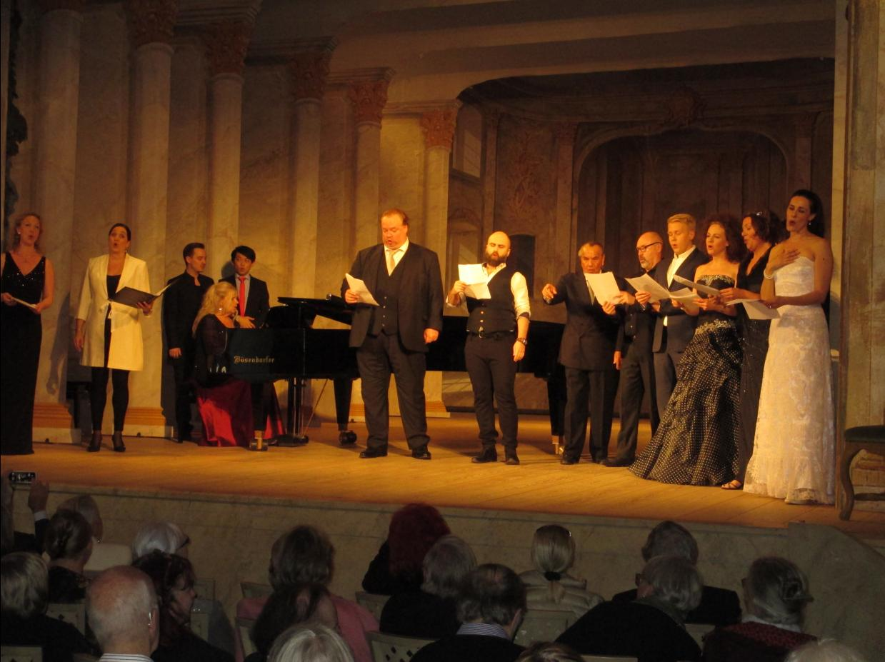 Concert cast (l-r: Paulina Pfeiffer Katarina Karnéus, Henrik Måwe, Majsan Dahling, David Huang, Marcus Jupither, Kosma Ranauer, Ragnar Ulfung, Lars Cleveman, Carl-Fredrik Tohver, Matilda Paulsson, ? & Caroline Gentele) pays tribute to Kjerstin Dellert at the 40th aniversary celebration of her theaterPlace: Ulriksdal Palace Theater, Solna, Sweden